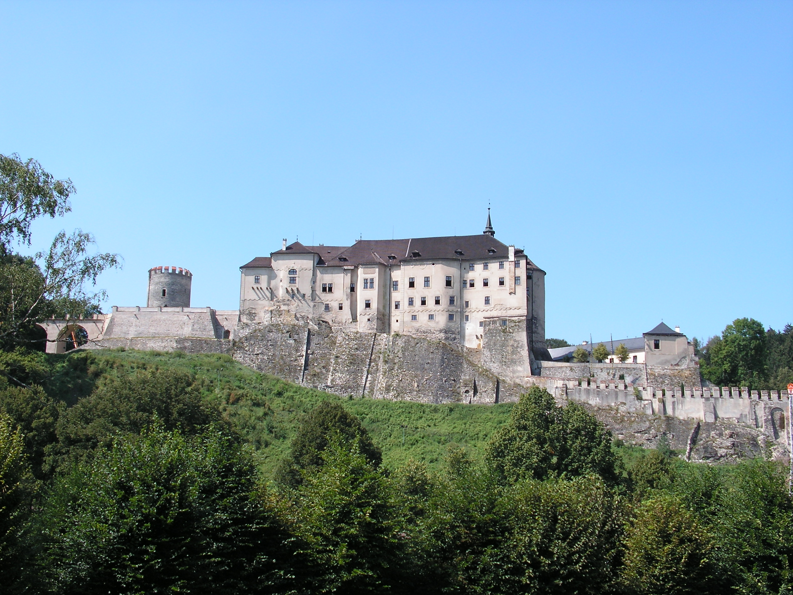 View at Český Šternberk Castle from the railway station, Benešov District, Czech Republic.